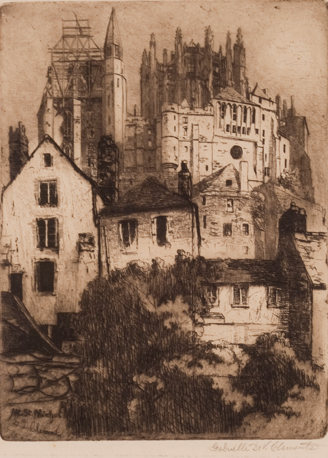 Gabrielle D. Clements, Church and Castle, Mount Saint Michel